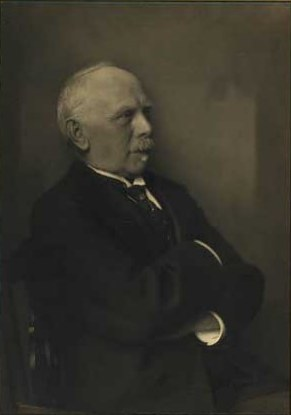 Danish railway architect, professor Heinrich Wenck (1851-1936)